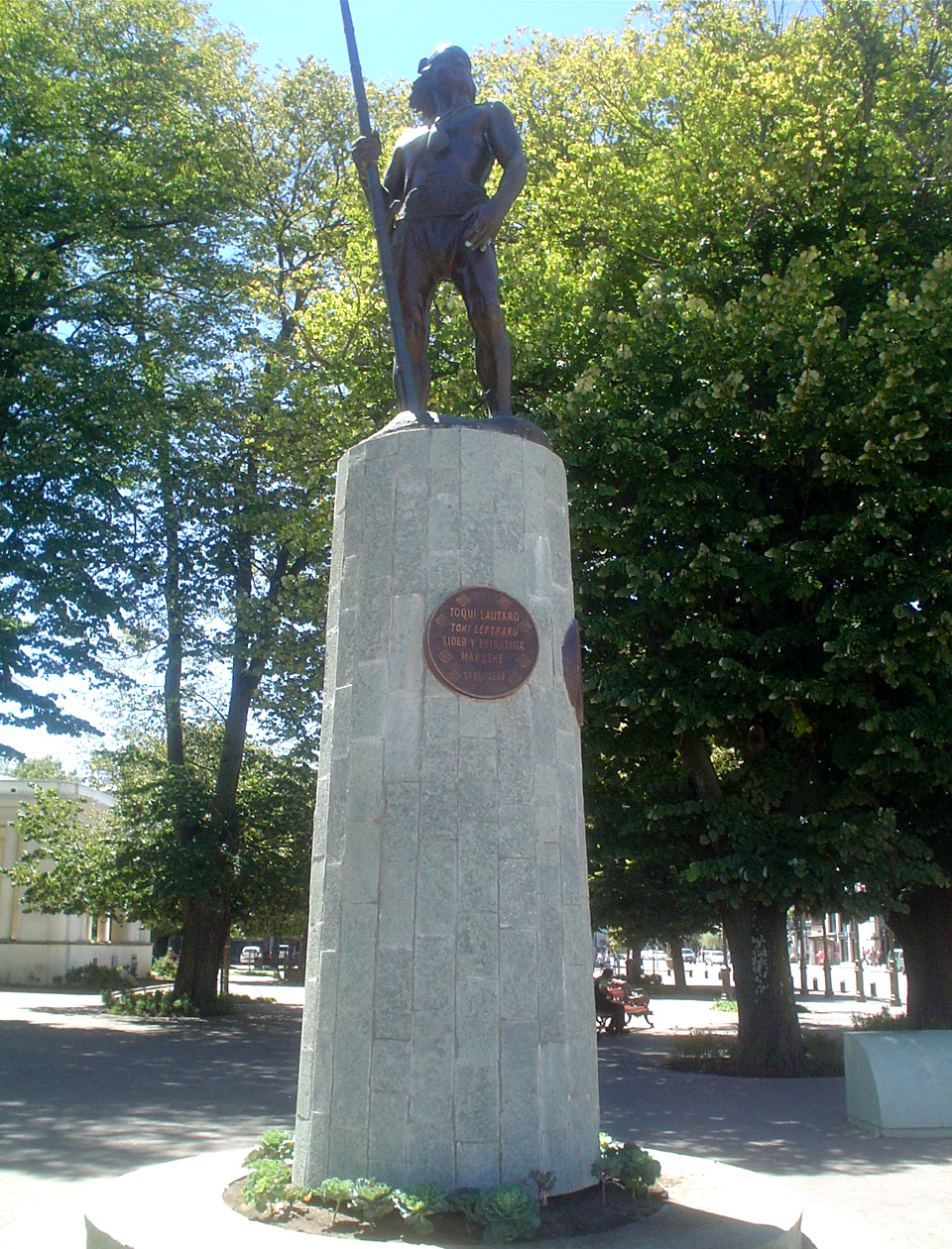 Lautaro statue in Concepción's main square, Chile.